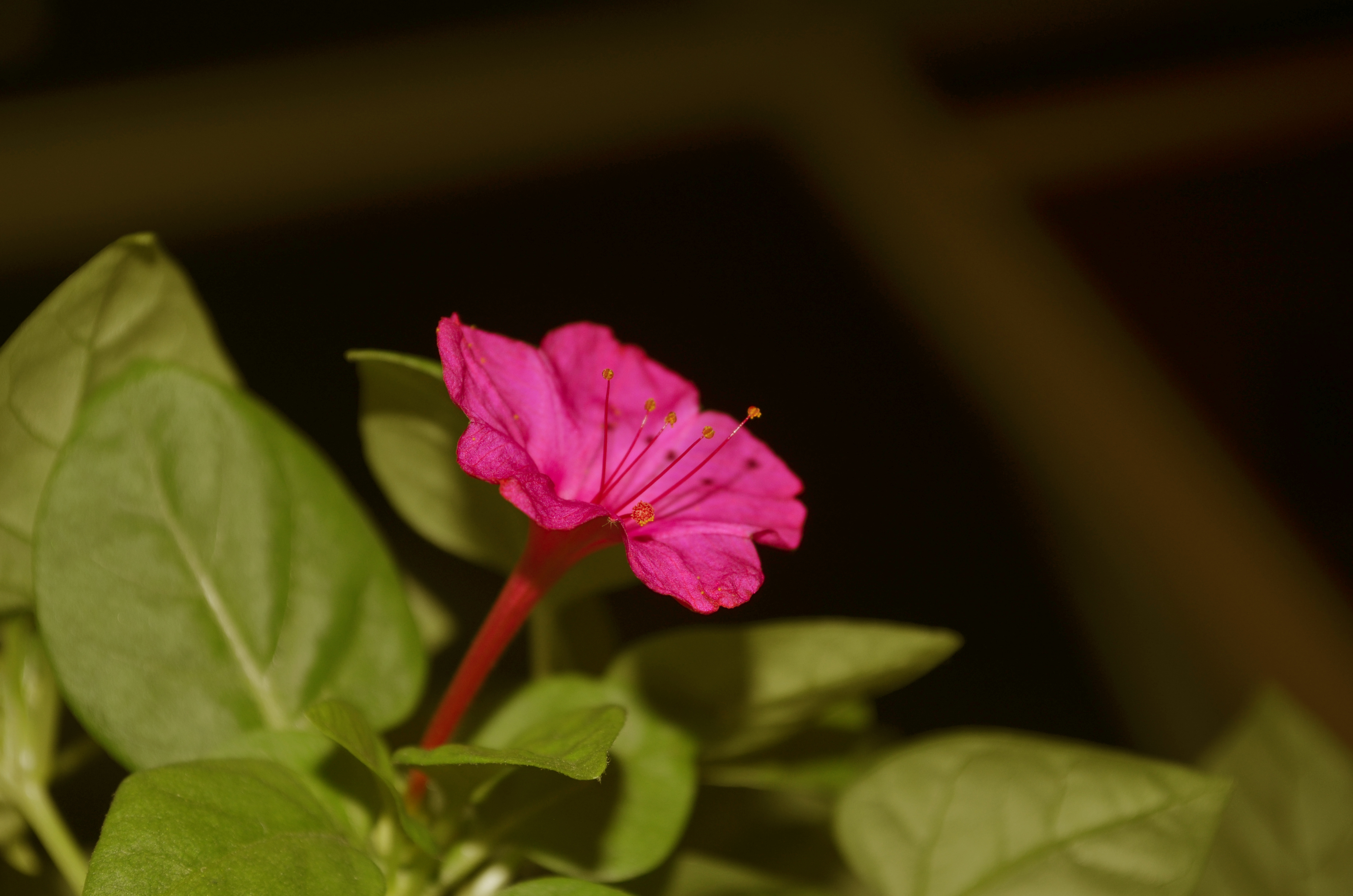 flower of jalapa